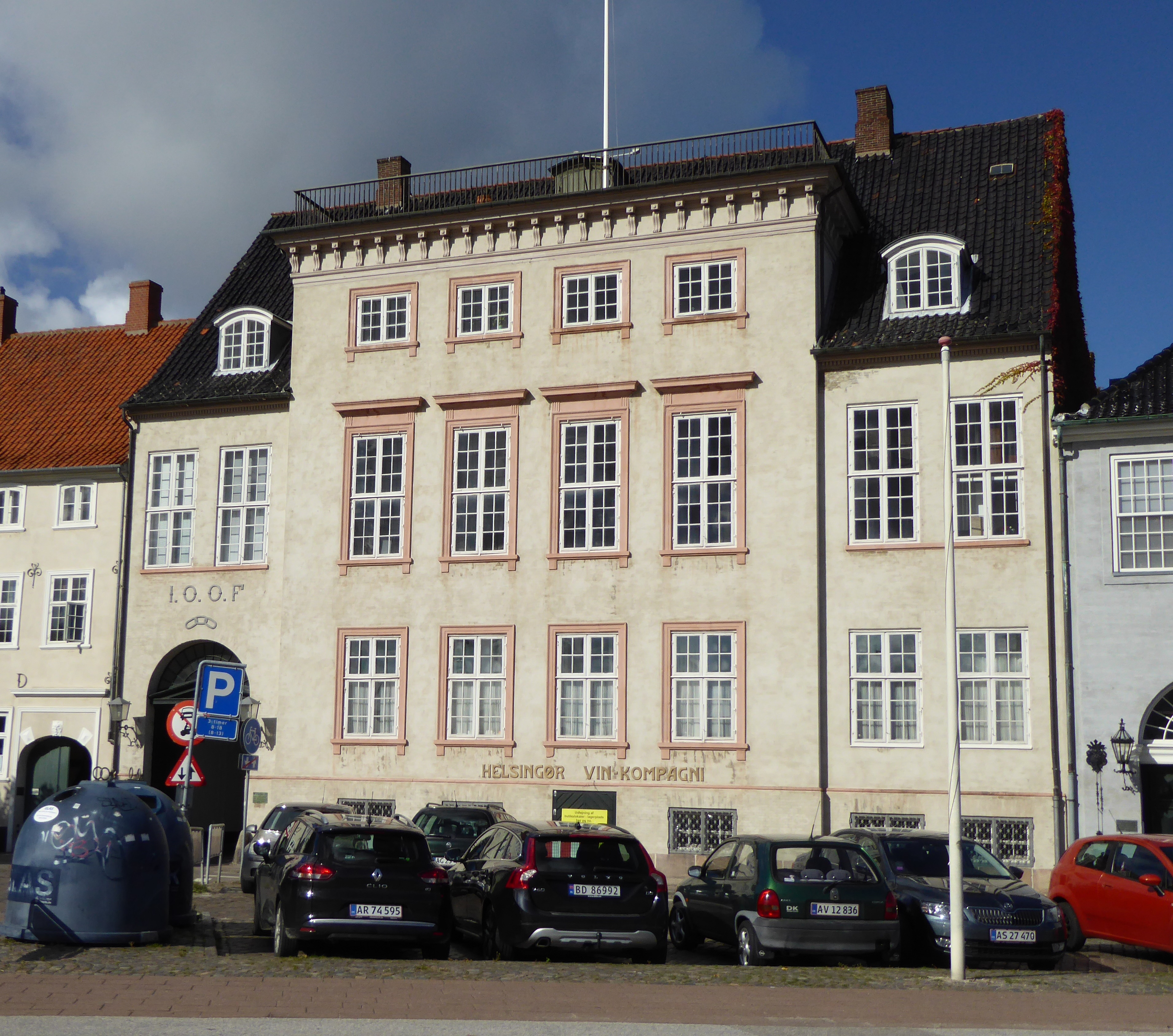 Det Classenske Palæ at Strandgade 93 in Helsingør, Denmark